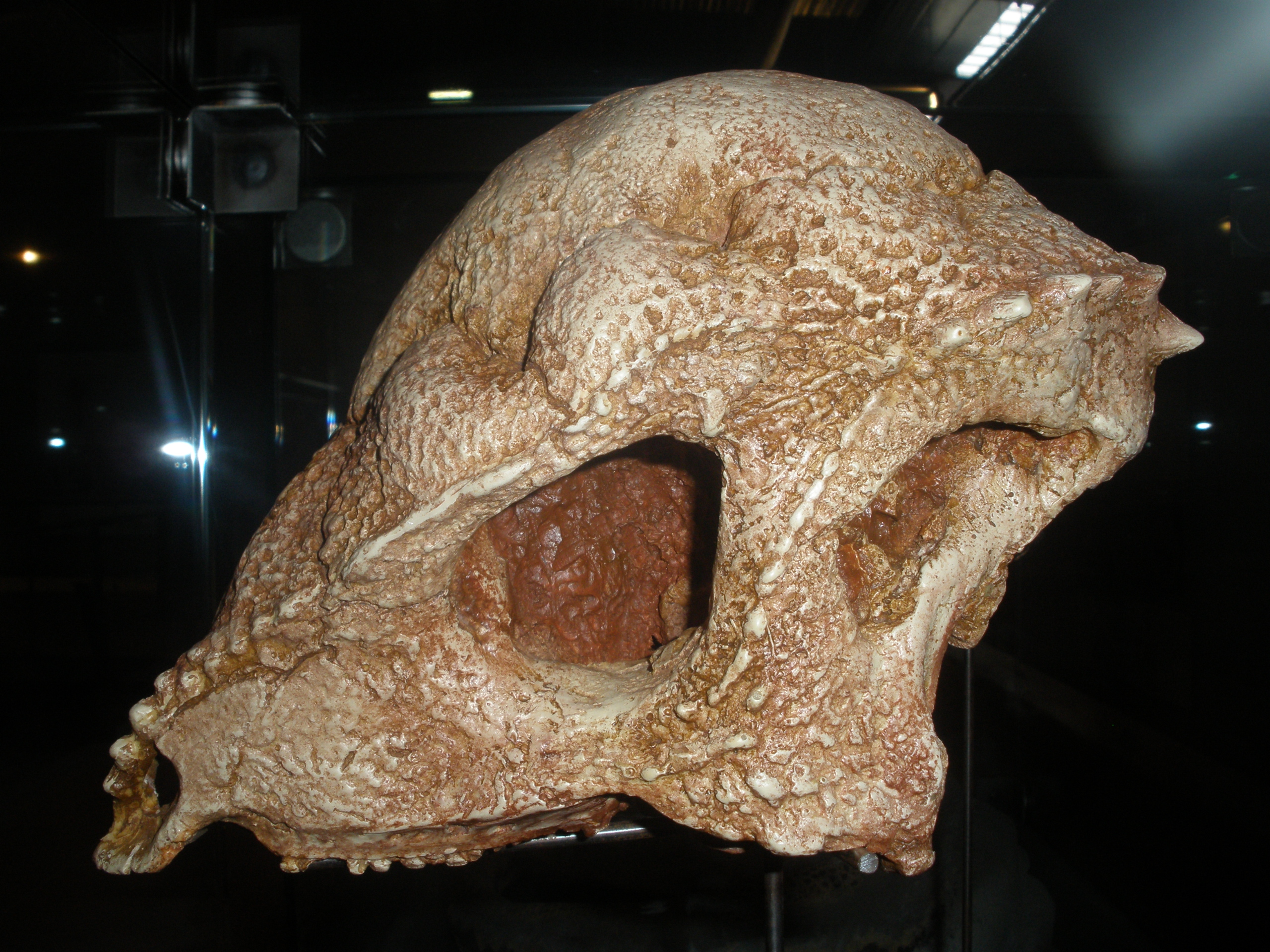 fossil of Prenocephale prenes, an extinct ornithischian